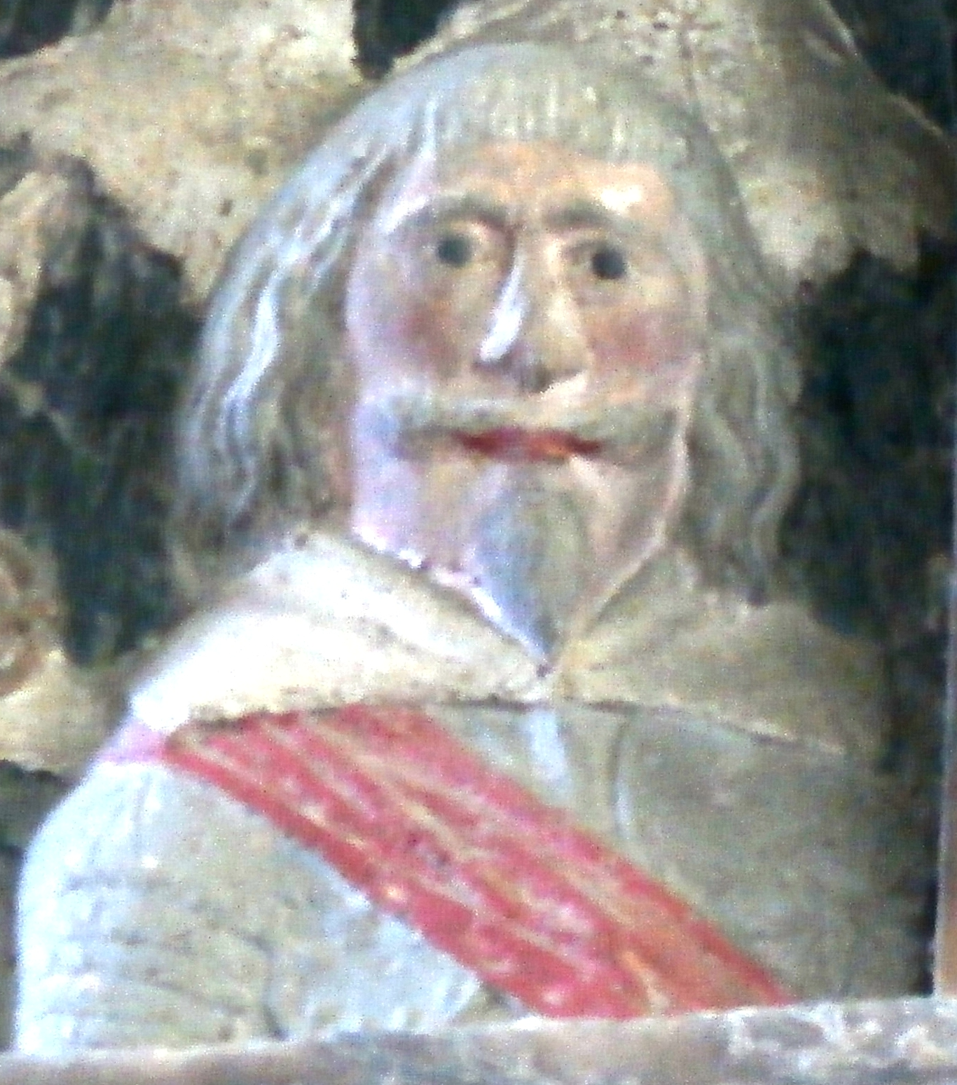 Sir Richard Strode (1584-1669), MP, of Newnham, Plympton St Mary, Devon. Detail from mural monument to his father Sir William Strode (d.1637) of Newnham in St Mary's Church, Plympton St Mary, Devon. He was the eldest of the 3 sons of Sir William Strode (Vivian, Lt.Col. J.L., (Ed.) The Visitation of the County of Devon: Comprising the Heralds' Visitations of 1531, 1564 & 1620, Exeter, 1895, p.719).